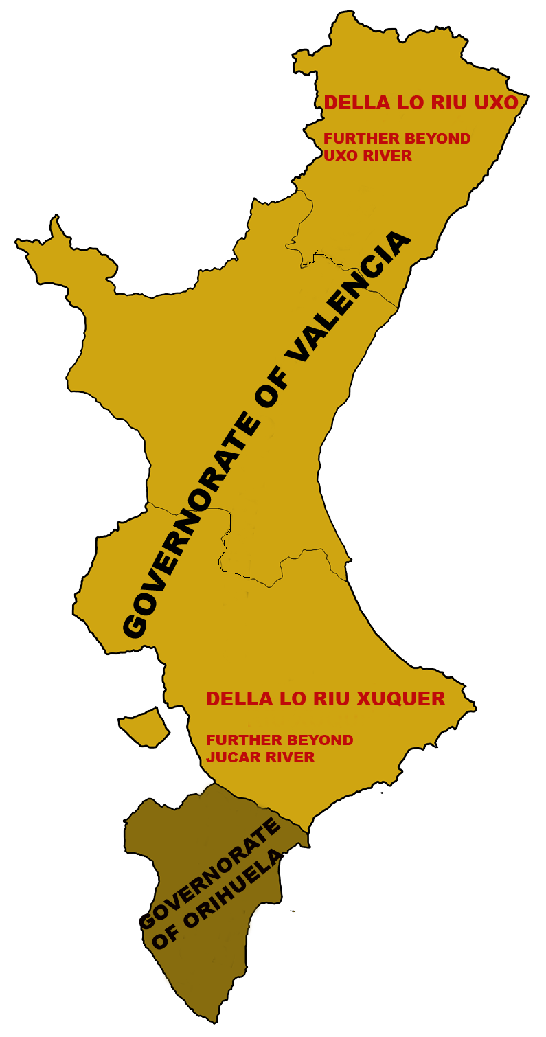 Traslation into english of this file by Daniel R. Soriano